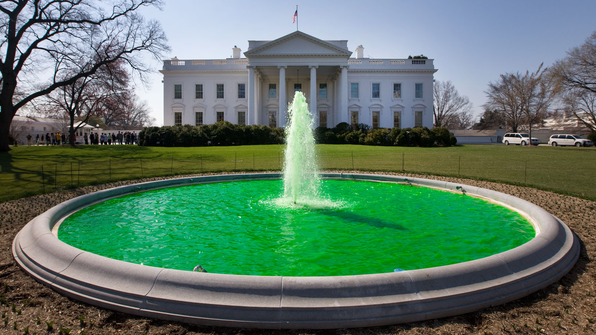 The water in the fountain on the North Lawn of the White House in Washington D.C. is dyed green for Saint Patrick's Day on 17 March 2011.